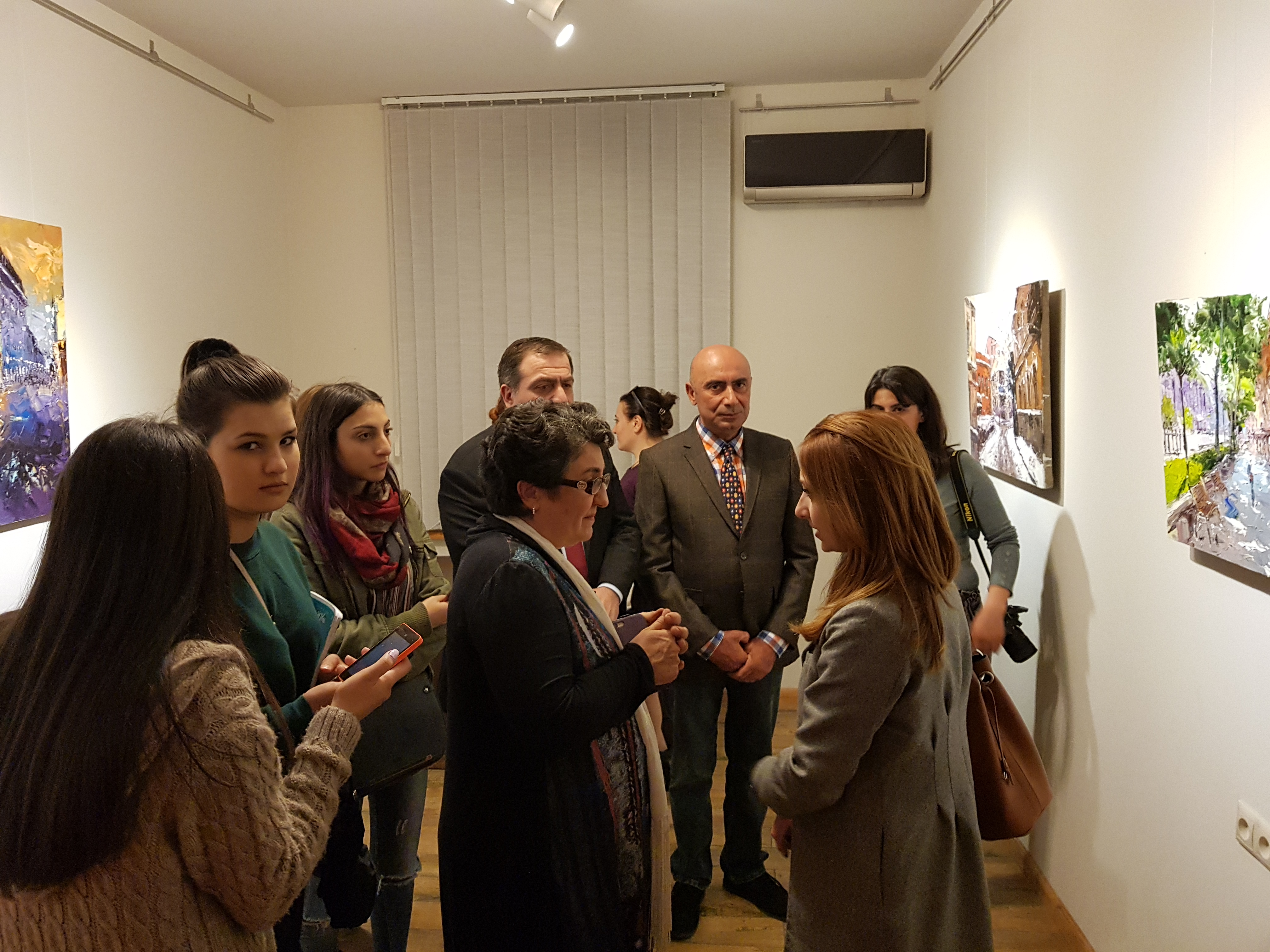 Tengiz Mikoyants exhibition at Sargis Muradyan Gallery